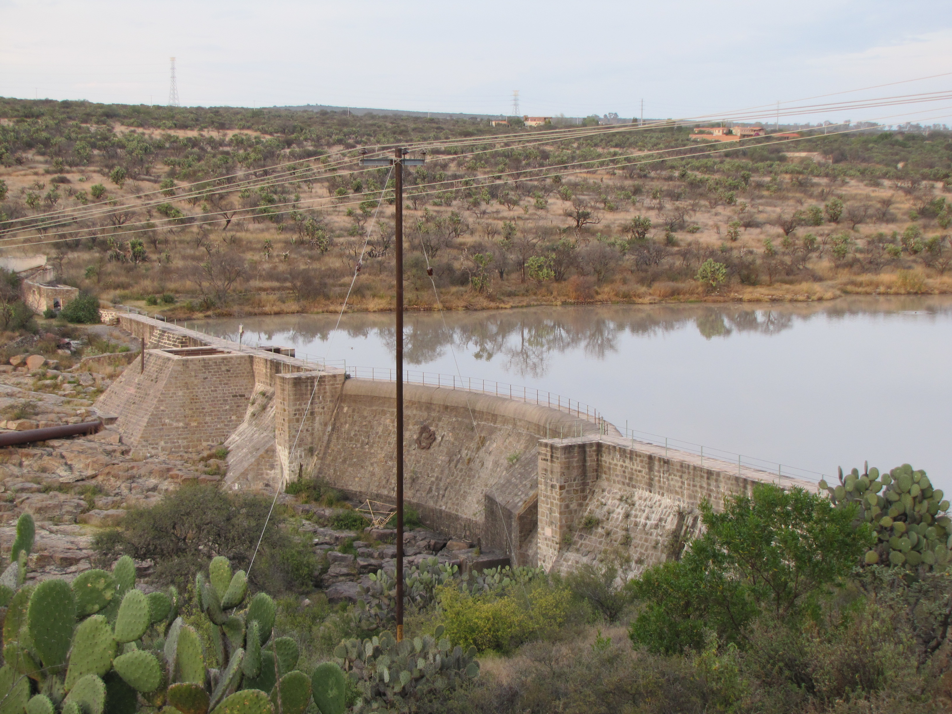 Presa Las Colonias, El Charco del Ingenio botanic garden, San Miguel de Allende Guanajuato, Mexico.